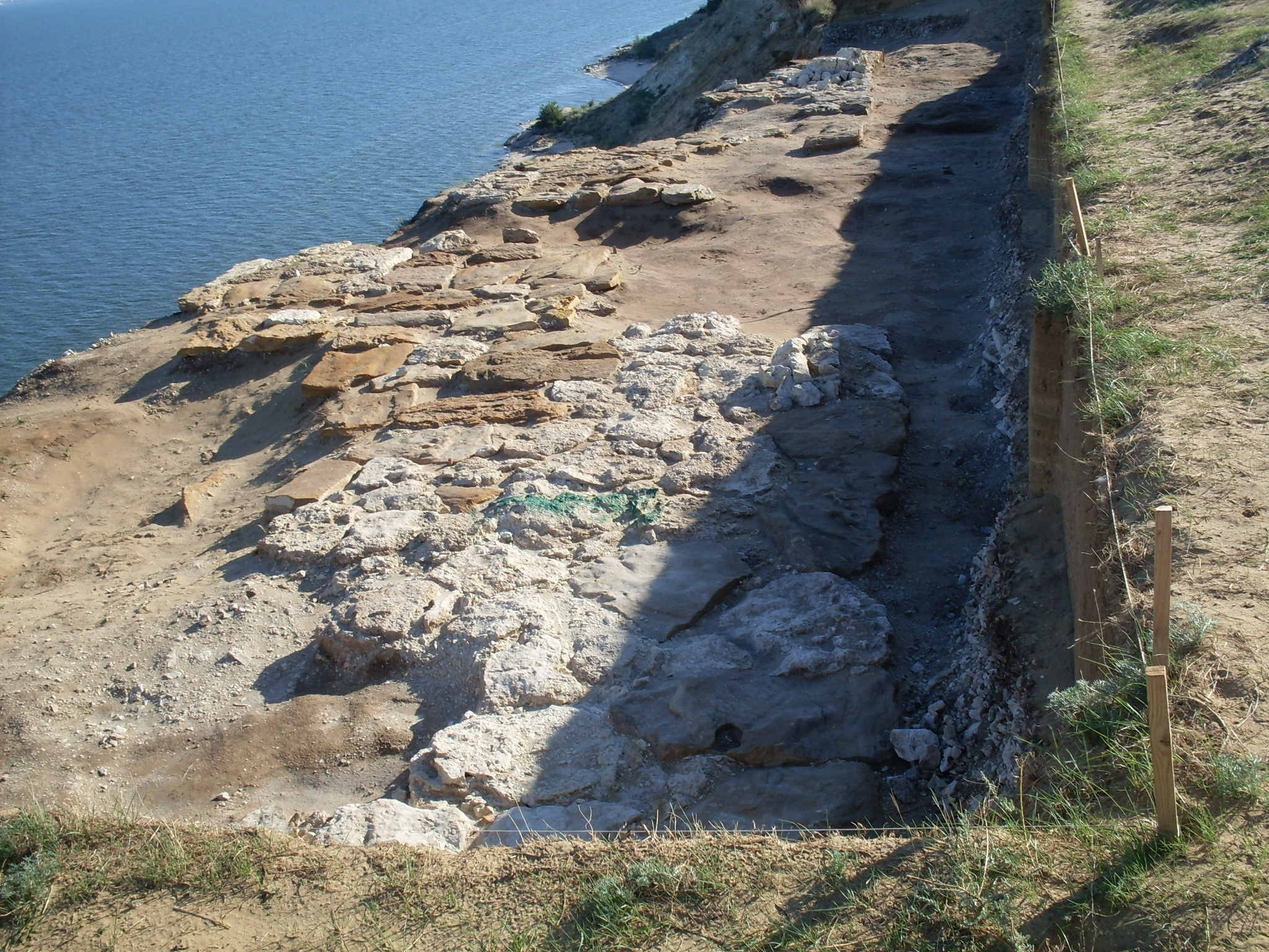 Khazar fortress at Sarkel (Belaya Vyezha, Russia)